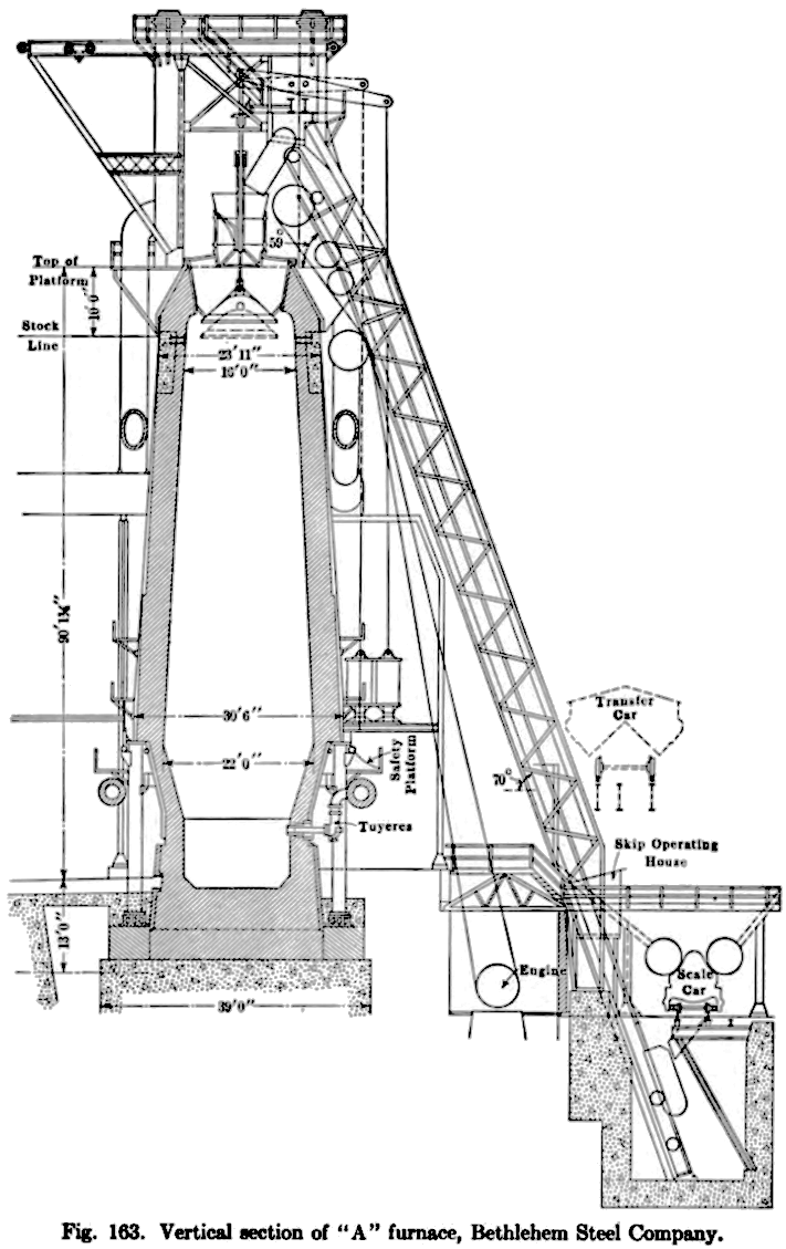 Bethlehem Steel Blast Furnace A drawing, United States, at the beginning of 20th century.